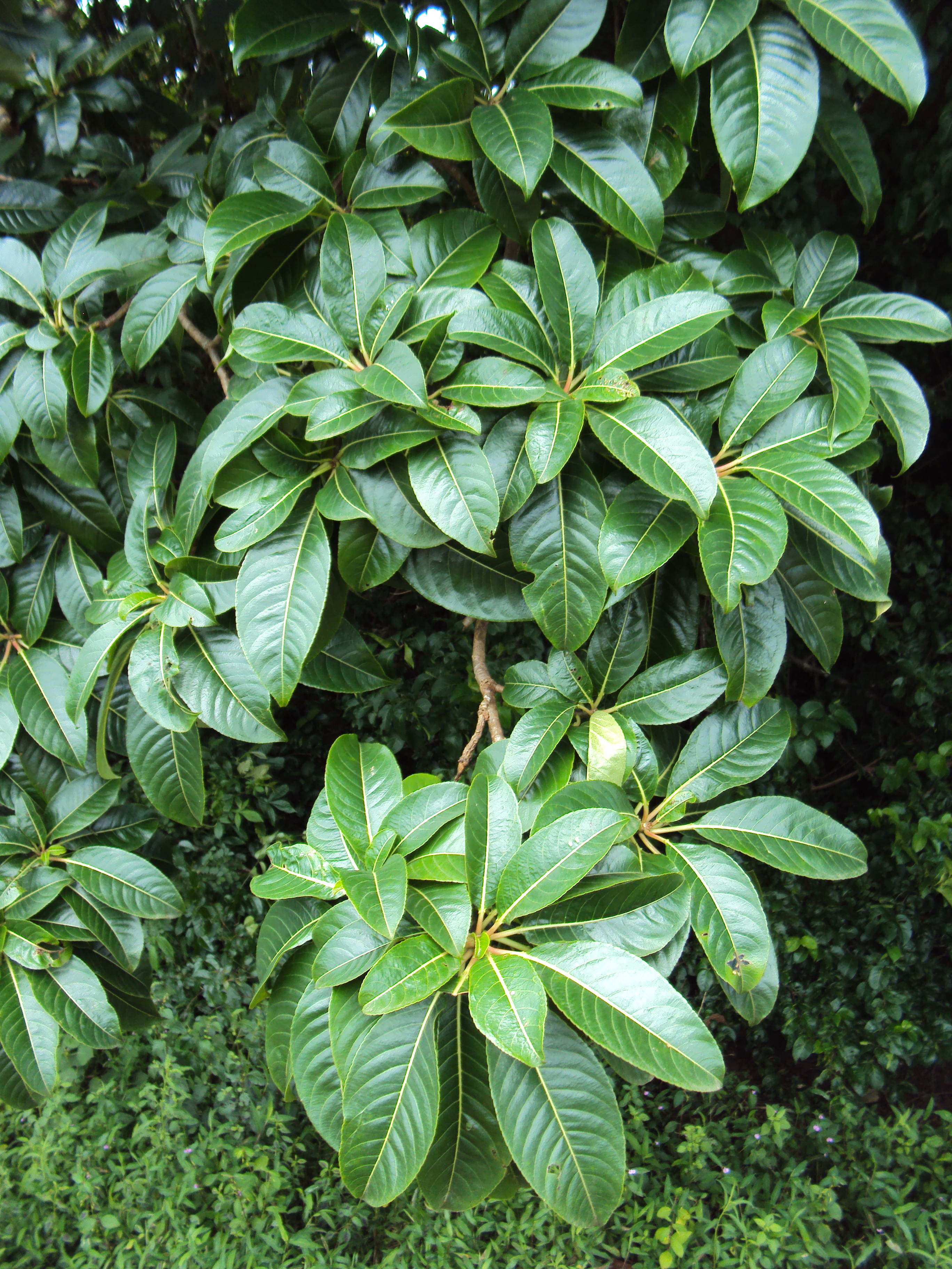 Sapium insigne